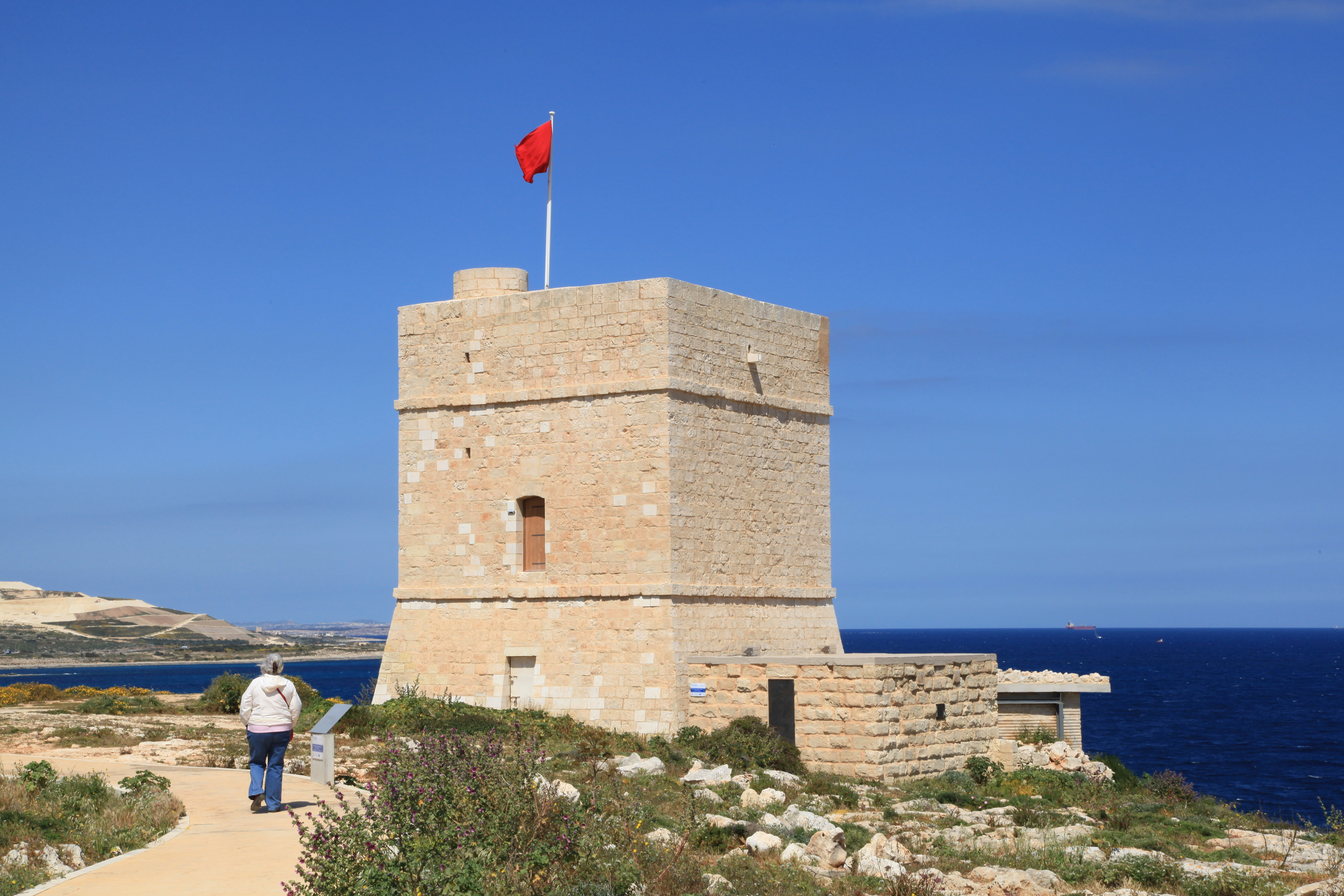 Madliena Tower at Triq Martin Luther King in Pembroke, Malta